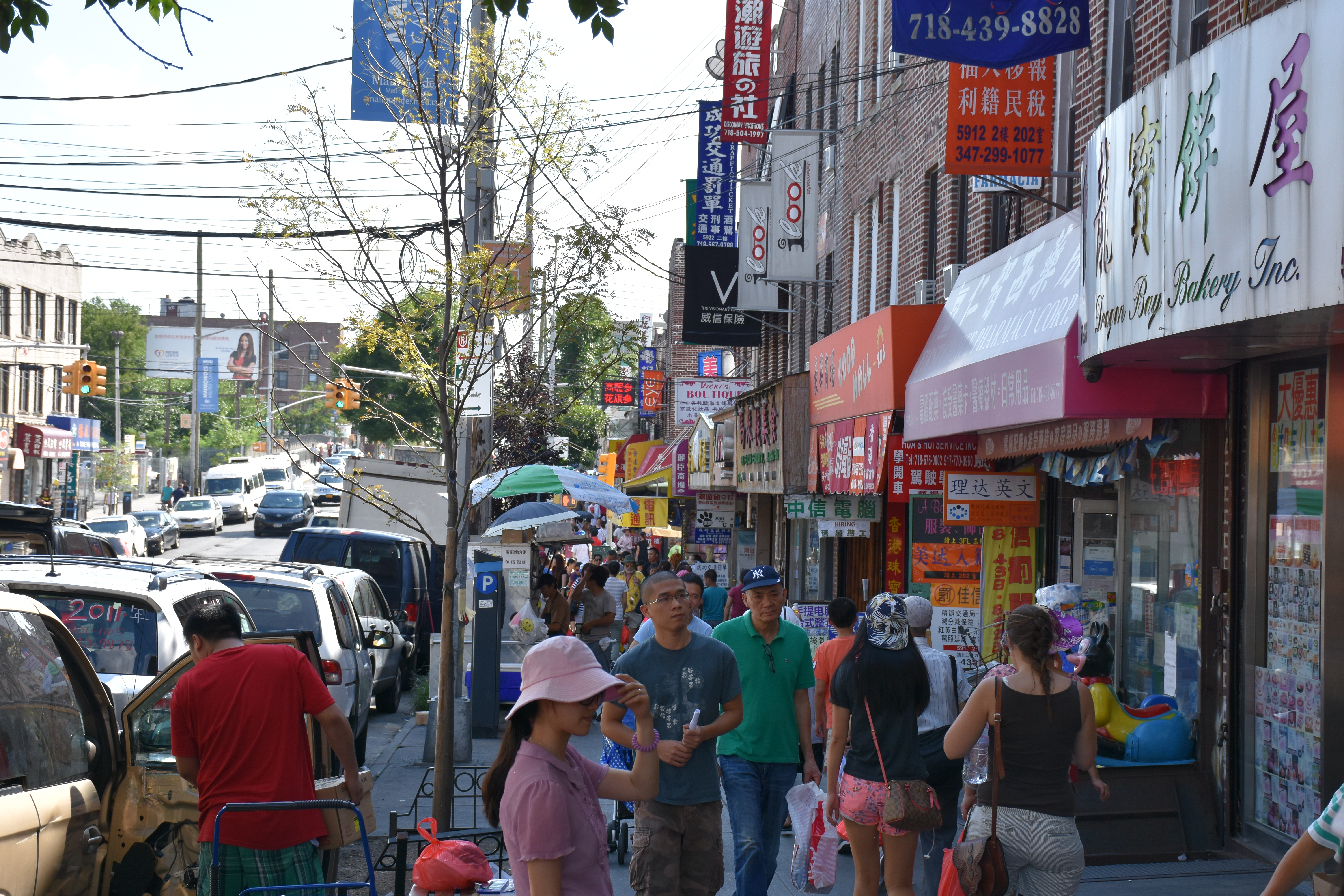 Sunset Park, Brooklyn looking south from 57th St